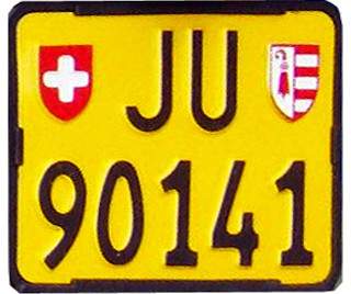 Swiss license plate for scooters, yellow background = for scooters